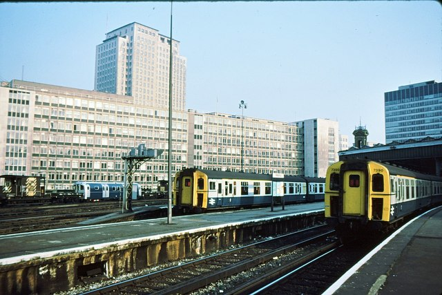 Office blocks at Waterloo station 1979 One of Shell's towers and the office blocks along Waterloo Road from Waterloo station. Hiding behind a signal is one of the 1940-built Waterloo & City line cars, ready to return underground after maintenance. Where it stands was later used for the Eurostar terminal.